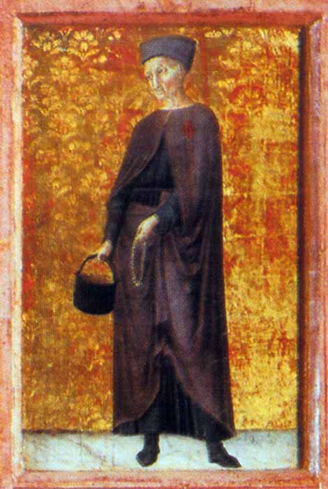 Blessed Andrea Gallerani, by Vecchietta, ca. 1445 (Pinacoteca nazionale, Siena)